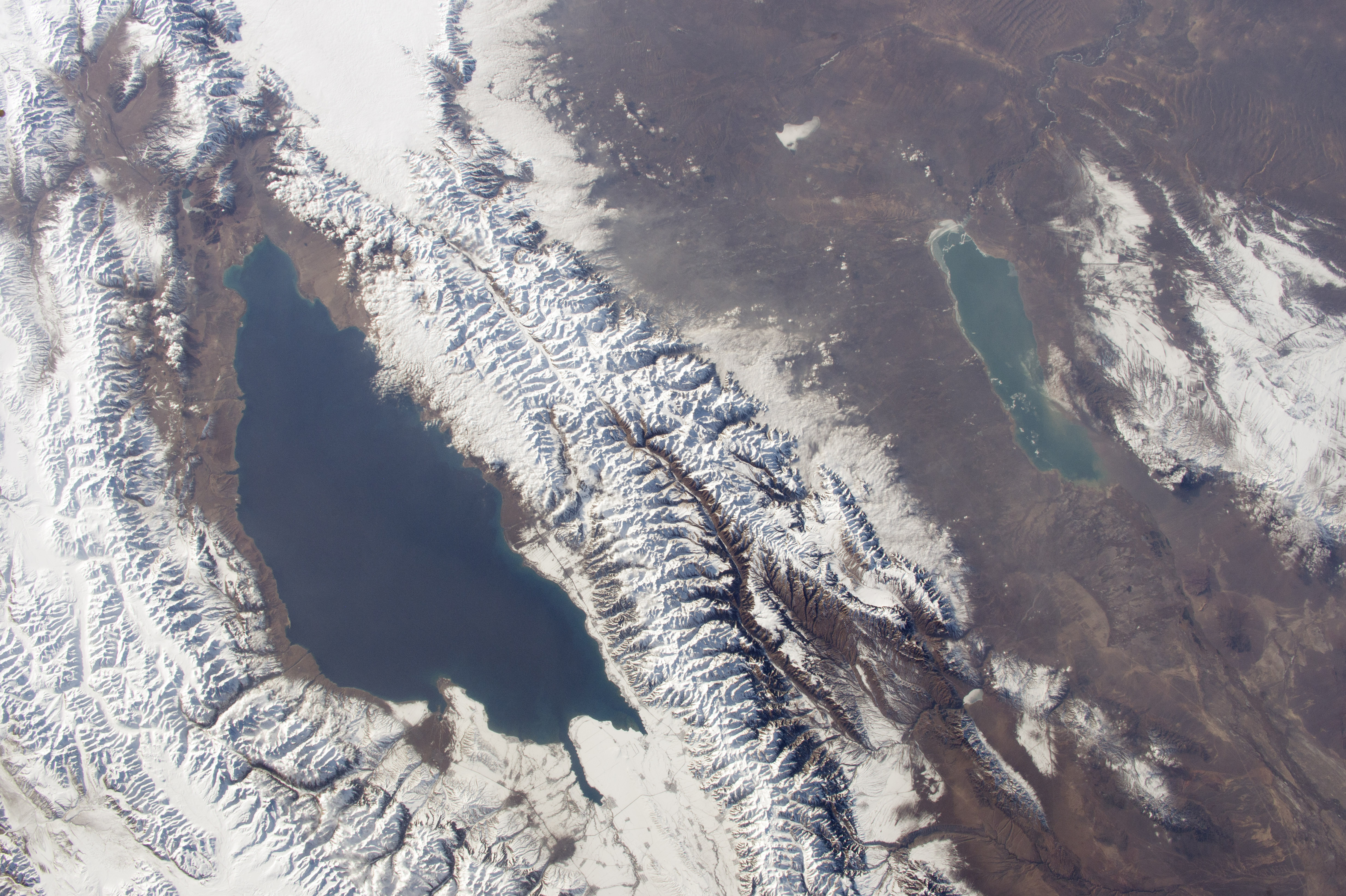 Lake Issyk Kul